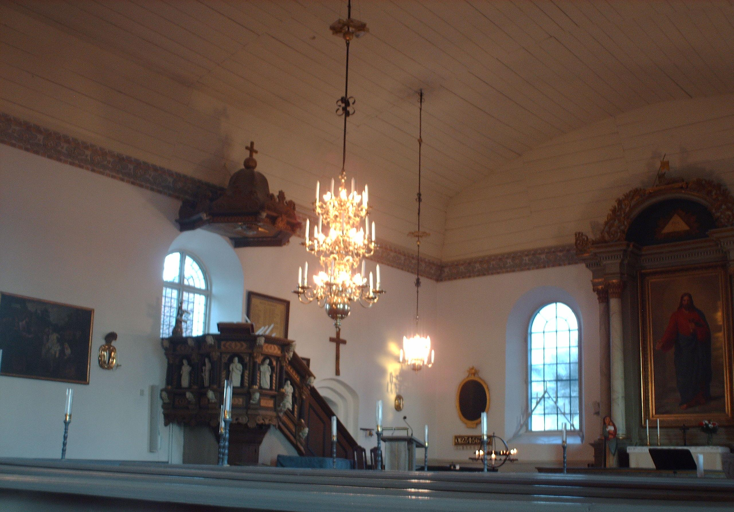 Landeryd Church, Sweden